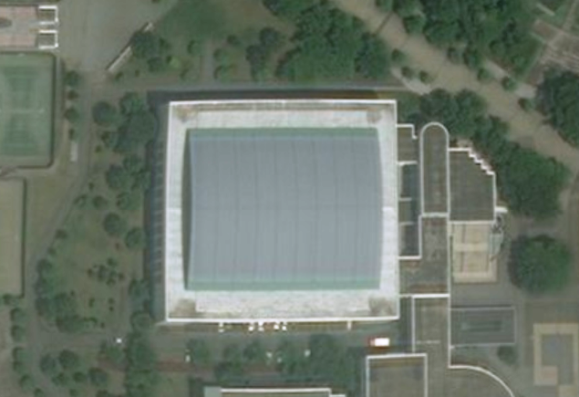 Satellite view, Yamagata Prefectural General Sports Park Gymnasium